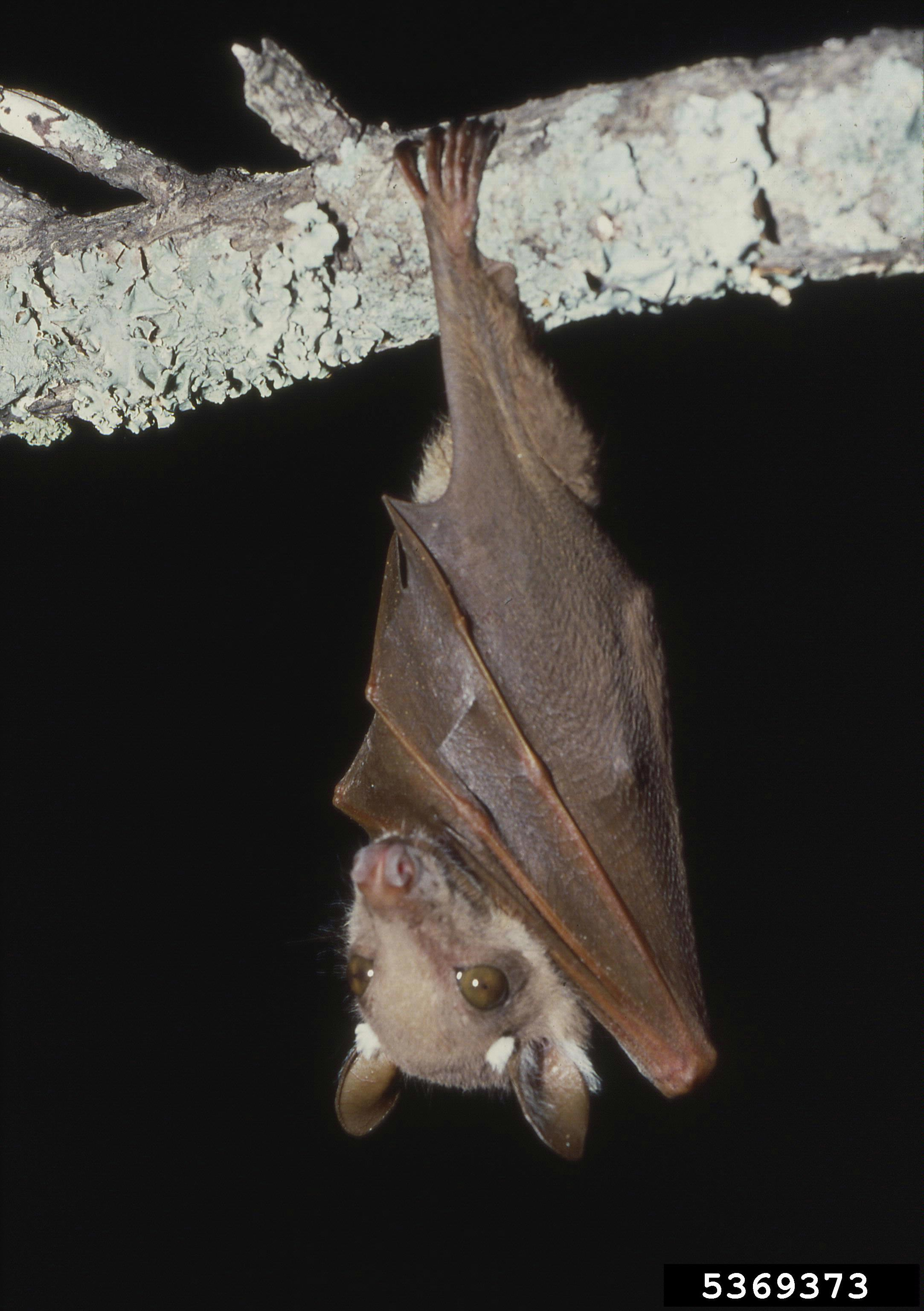 Epomophorus wahlbergi near Limpopo river, South Africa